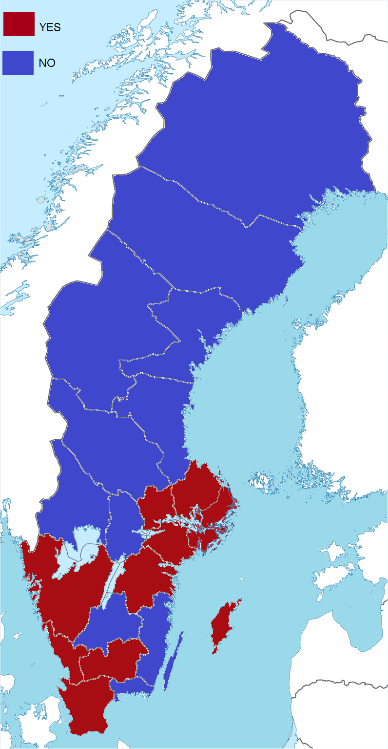 Swedish European Union membership referendum, 1994 result by provinces. Red is YES, Blue is NO